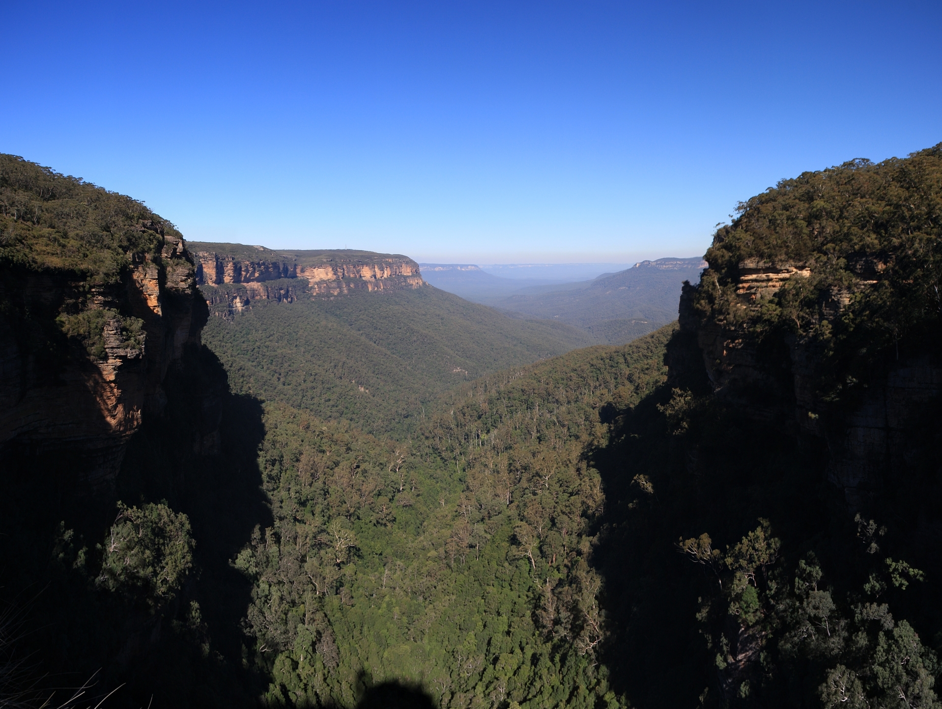 Jamison Valley from Wentworth Falls, Valley of the Waters walking track.